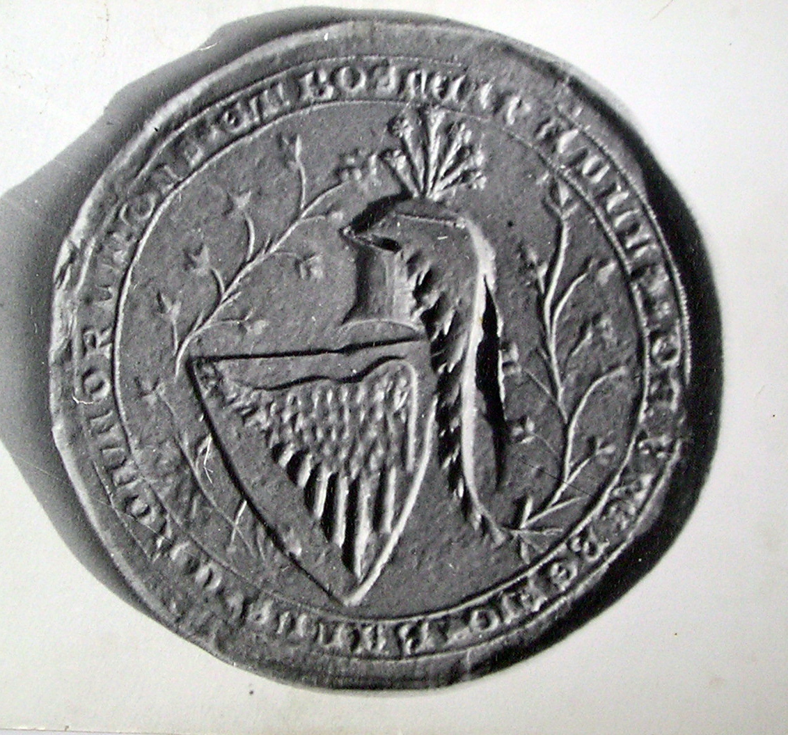 Seal of Paul I Šubić of Bribir (c. 1245 – 1 May 1312)